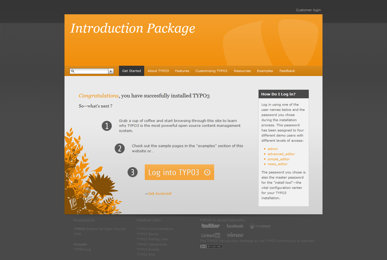 Screenshot of the Website Template "TYPO3 Introduction Package".